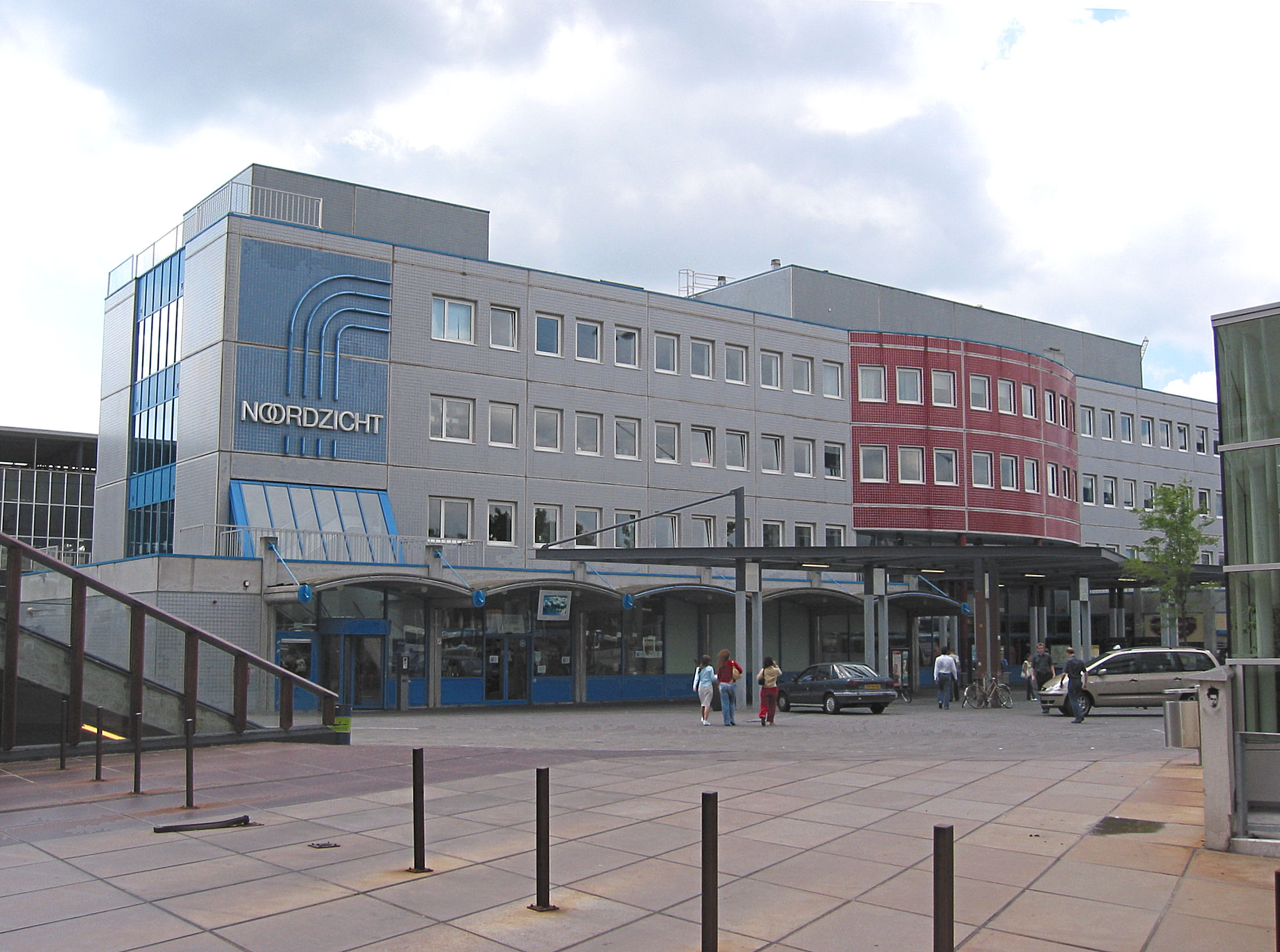 Station Eindhoven, The Netherlands